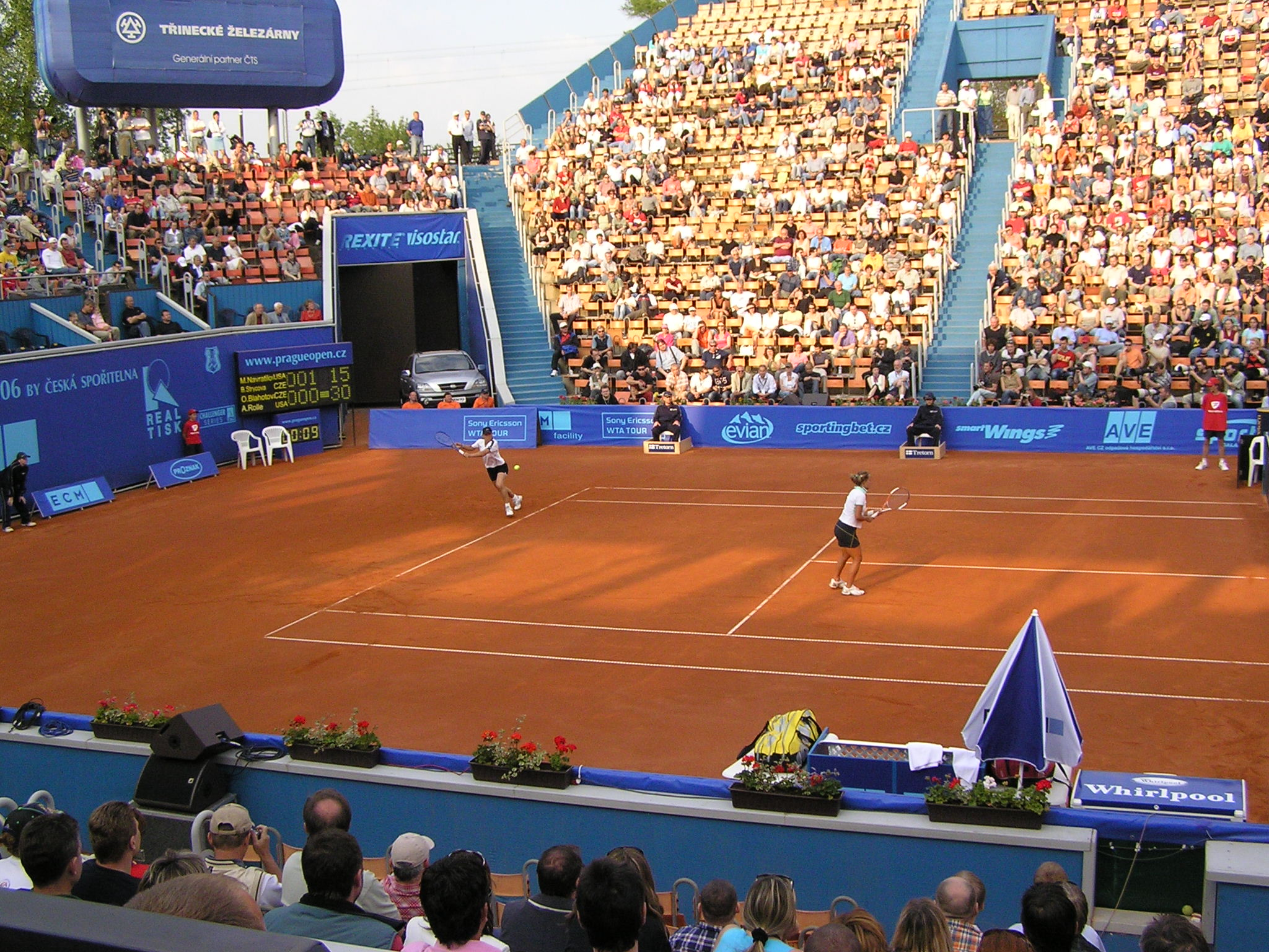 Martina Navrátilová ! Photo taken from ECM Prague Open 2006 ( - Prague, May 2006.